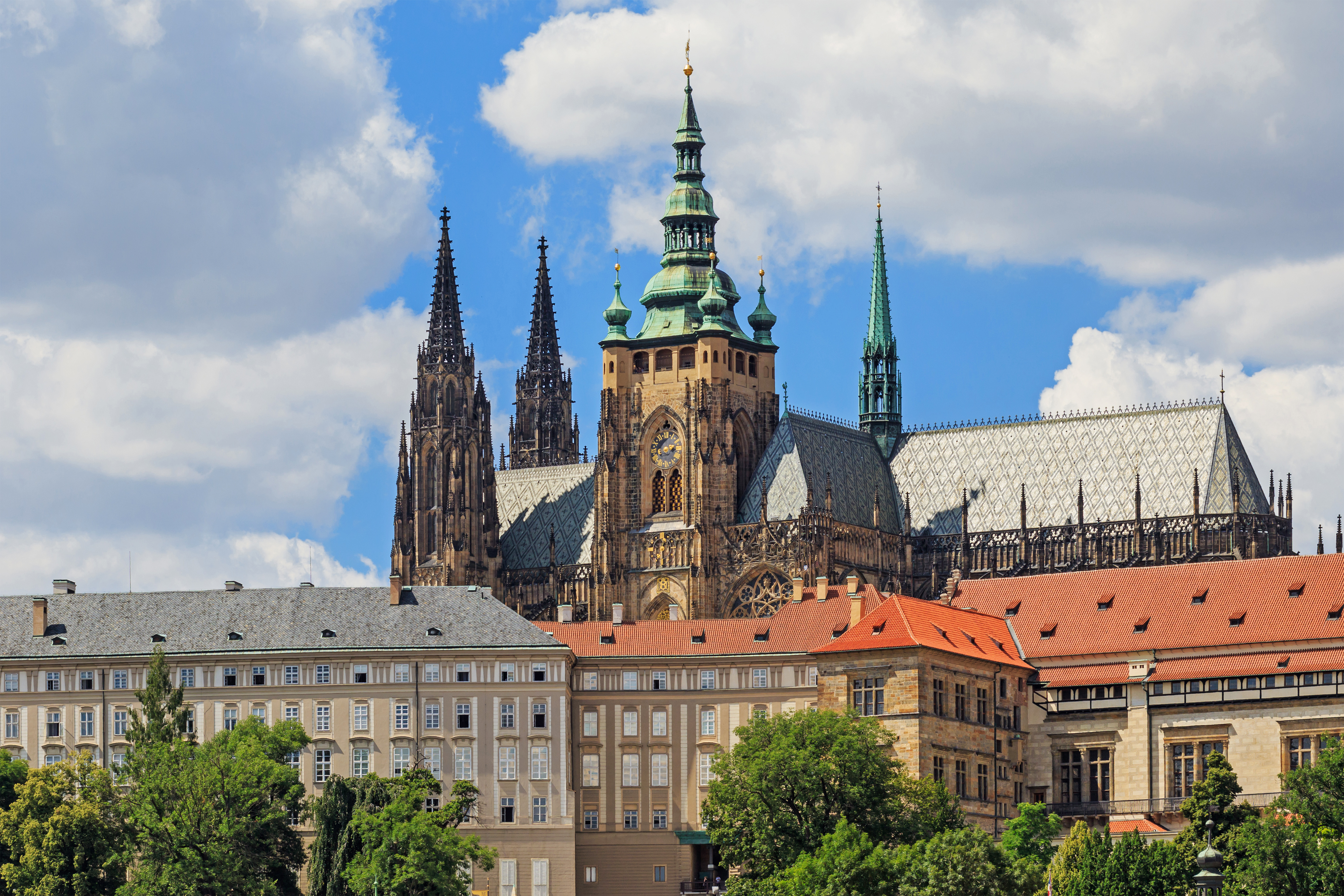 View from the Lesser Town tower of Charles Bridge in Prague (Czech Republic)